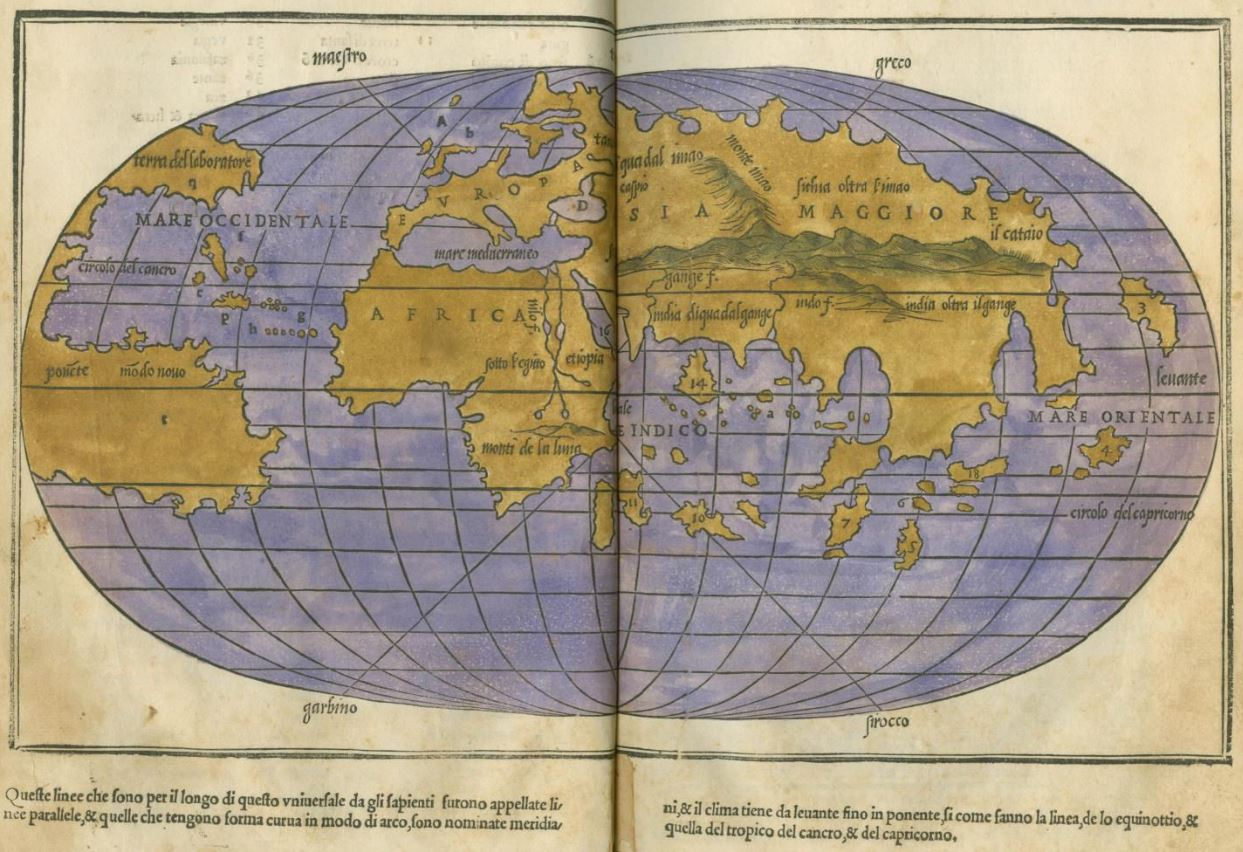 World map ("universale") in Benedetto Bordone's book Isolario, from a hand-colored issue of the 1534 edition.